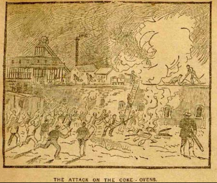 Coal workers attack the coke oven to halt the operation of the coal company during the Moorewood coal mining strike of 1891.